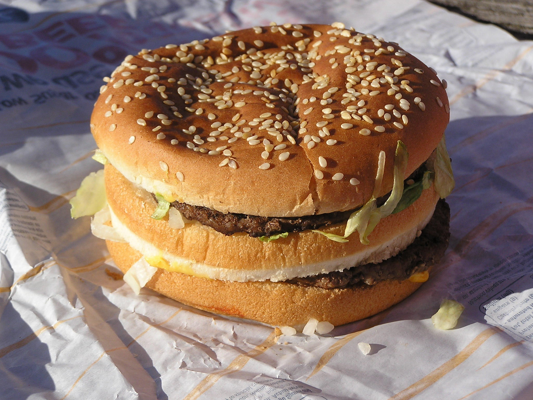 A Big Mac, purchased in Canberra, Australia, August 2005. Picture taken by AYArktos